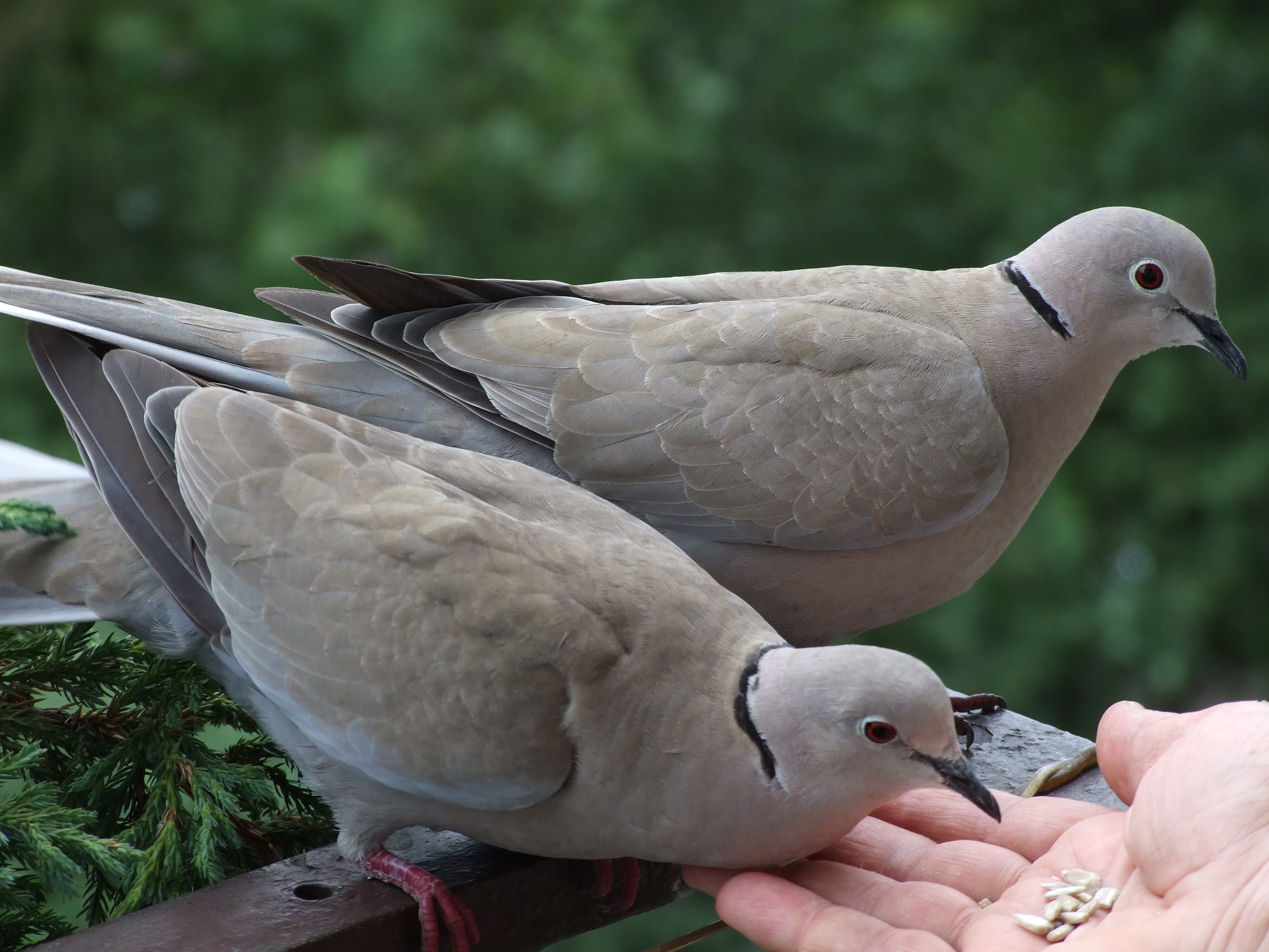 Eurasian Collared Dove, Eurasian Collared-Dove, Collared Dove; spotted in Szczecin, Poland.